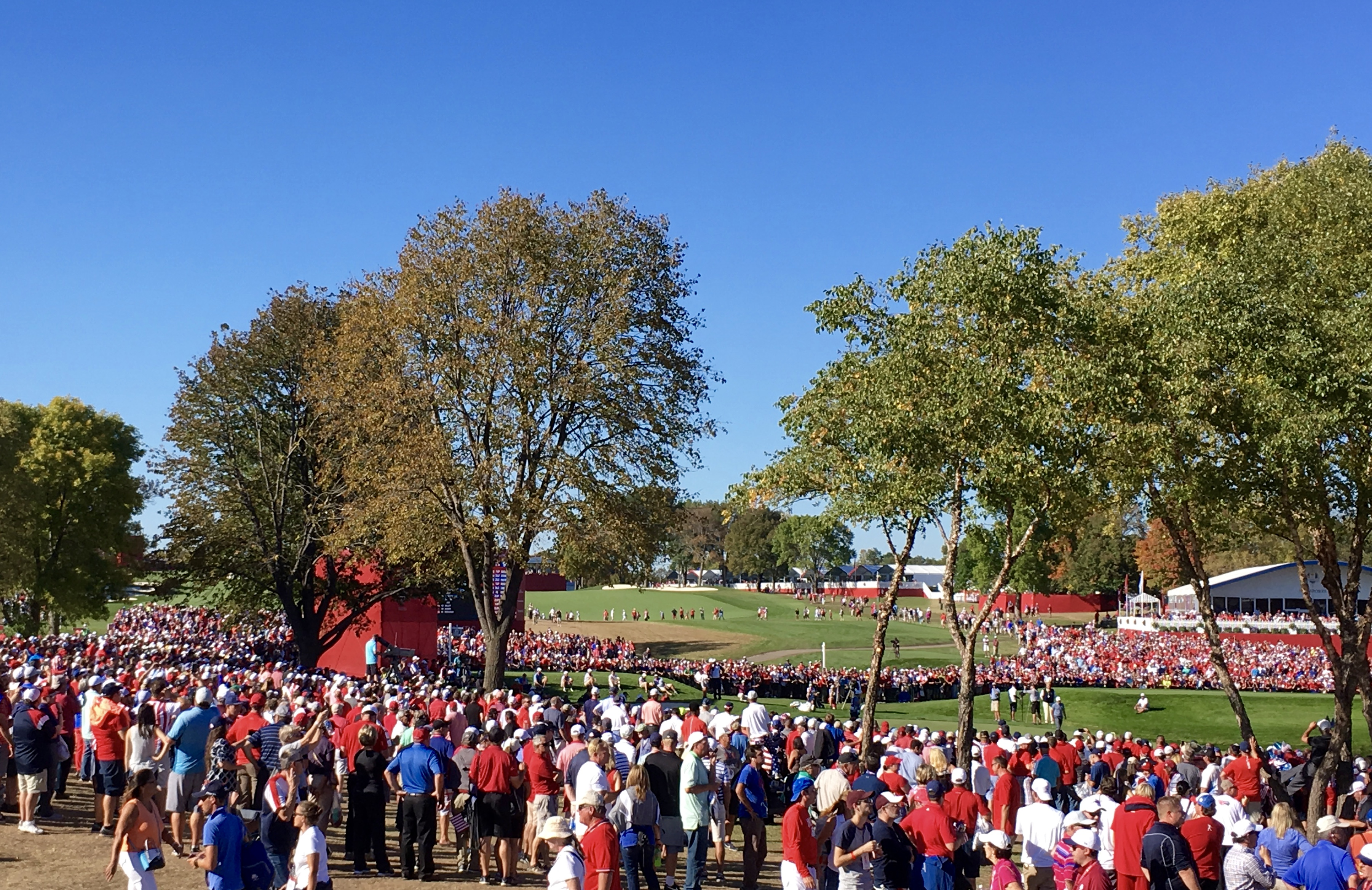 Crowds gather around the 17th hole at Hazeltine National Golf Club in Chaska, Minnesota during the 2016 Ryder Cup